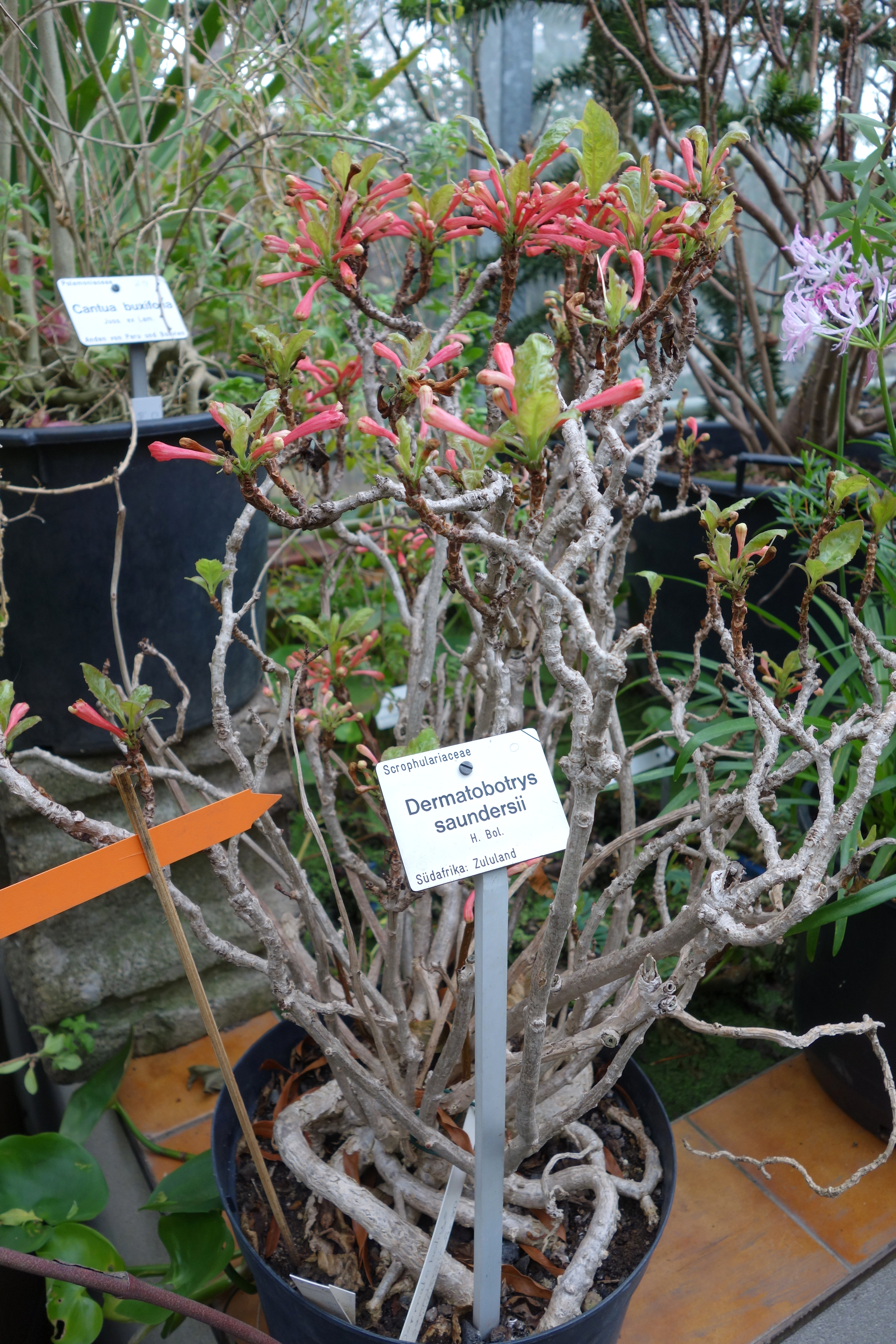 Botanical specimen in the Botanischer Garten, Dresden, Germany.